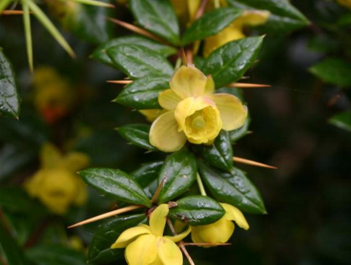 Berberis verruculosa: Flowers and leaves.